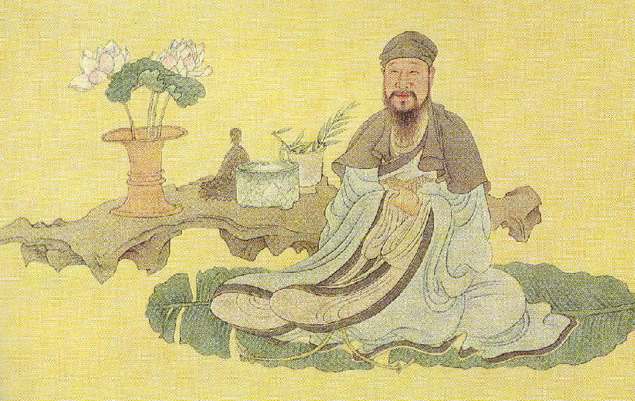 Four Scenes from the life of the Tang Poet Bai Jyuyi, Museum Rietberg,Zurich, Swiss